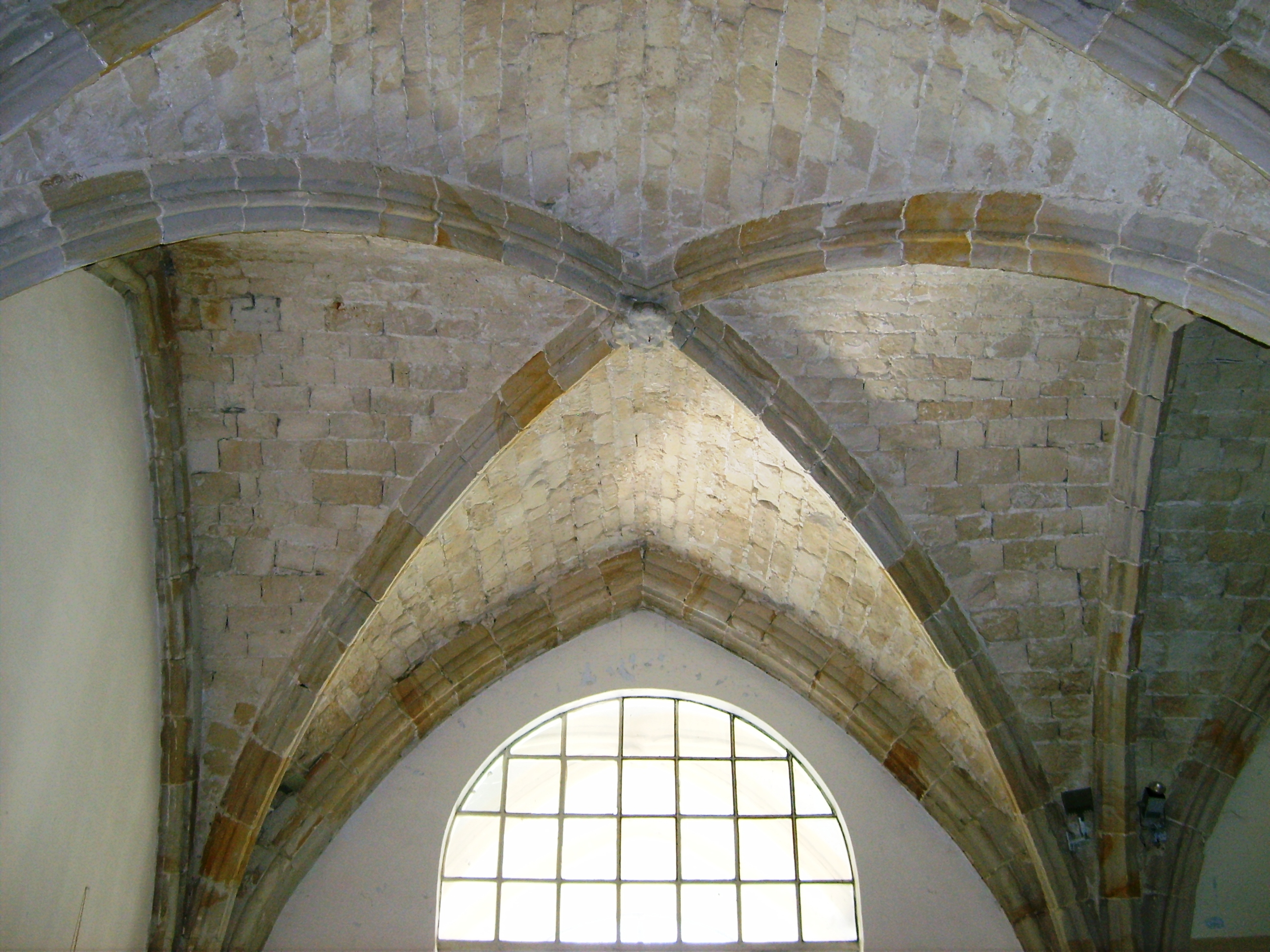 Cross-ribbed vault, chapter house, 13th century, Bonne-Espérance Abbey, Vellereille-les-Brayeux, Belgium.